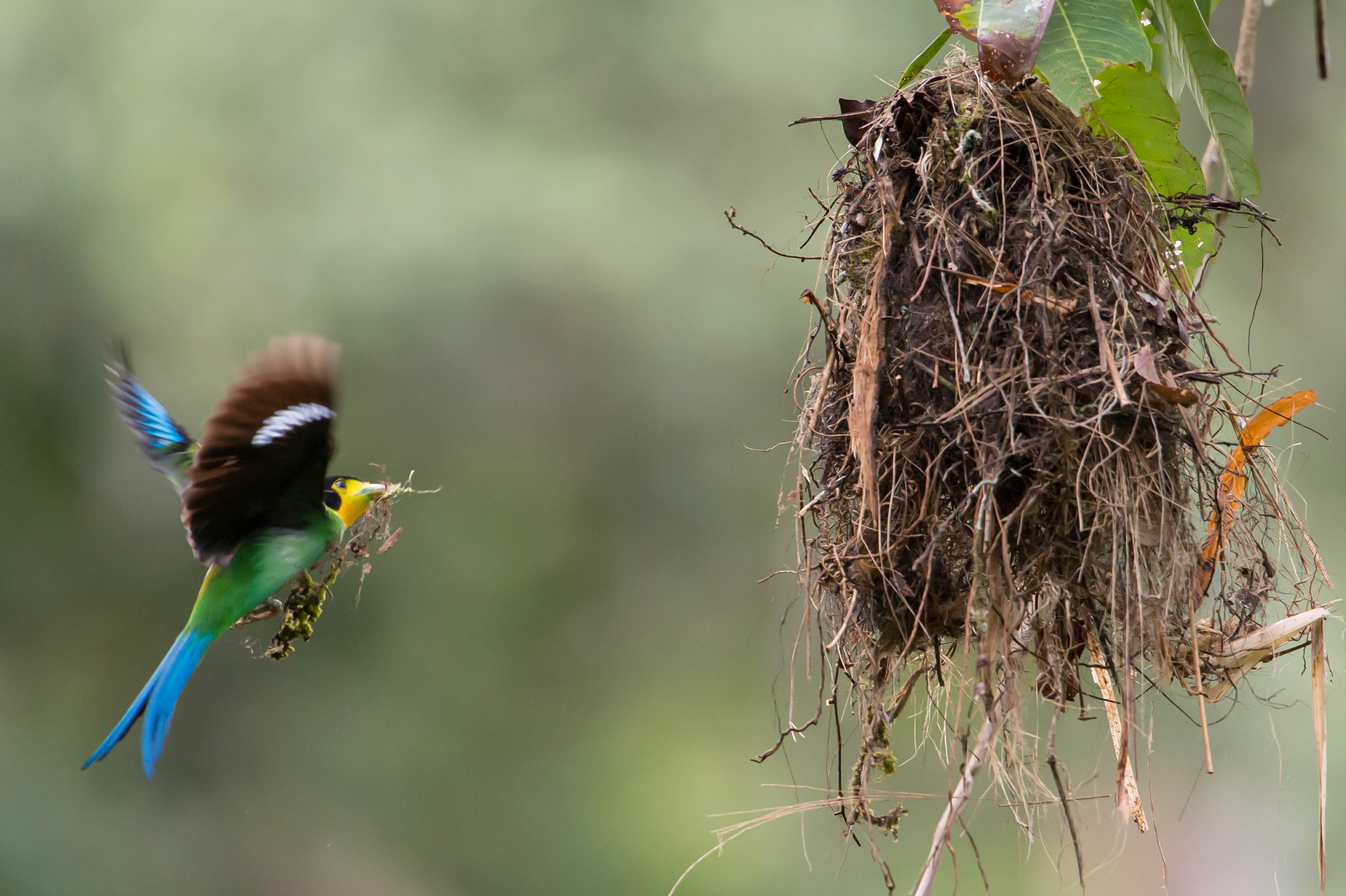 Long-tailed Broadbill (Psarisomus dalhousiae) at Kaeng Krachan, Phetchaburi, Thailand